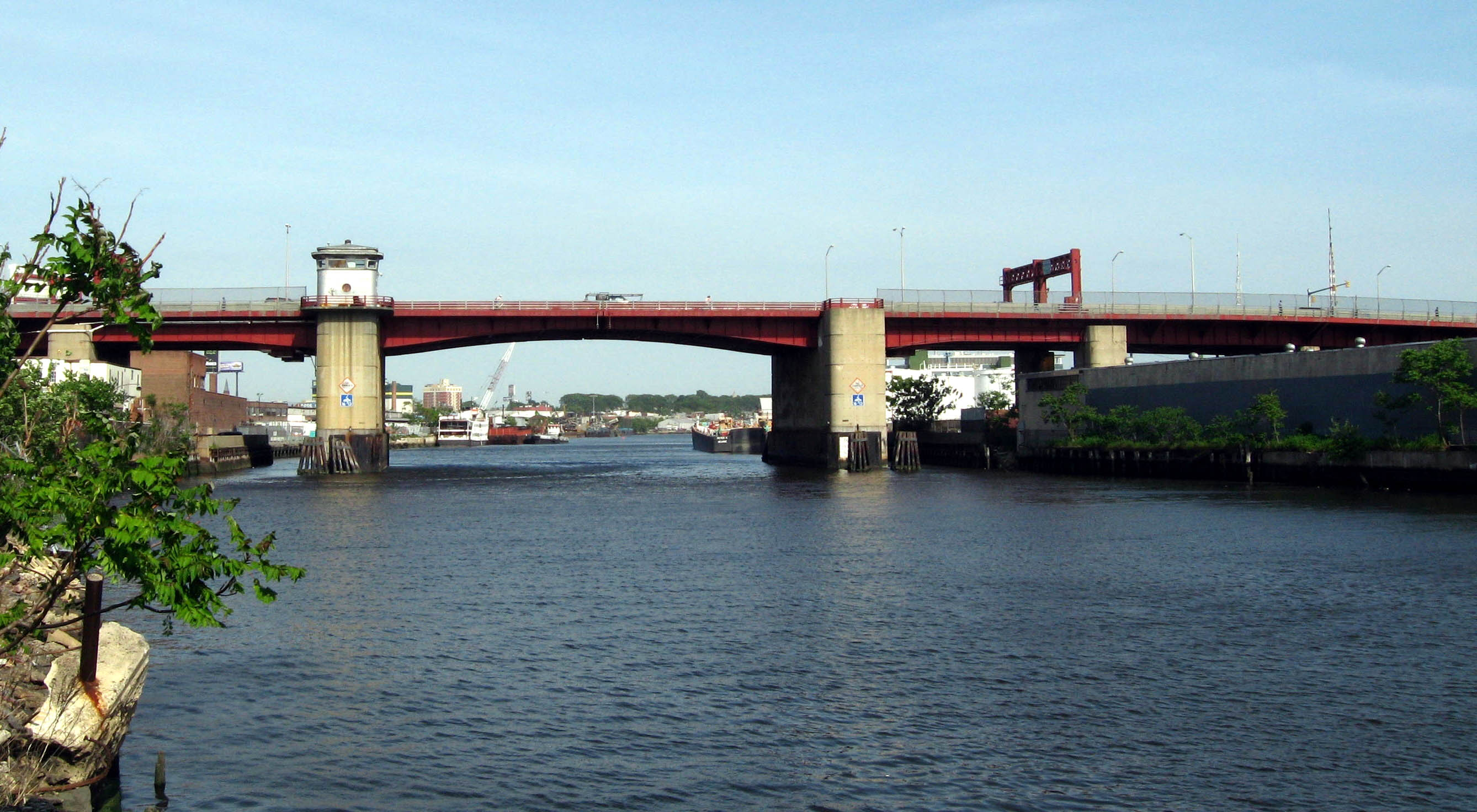 Looking upsteam from site of the former Manhattan Avenue Bridge towards Pulaski Bridge on a sunny afternoon.